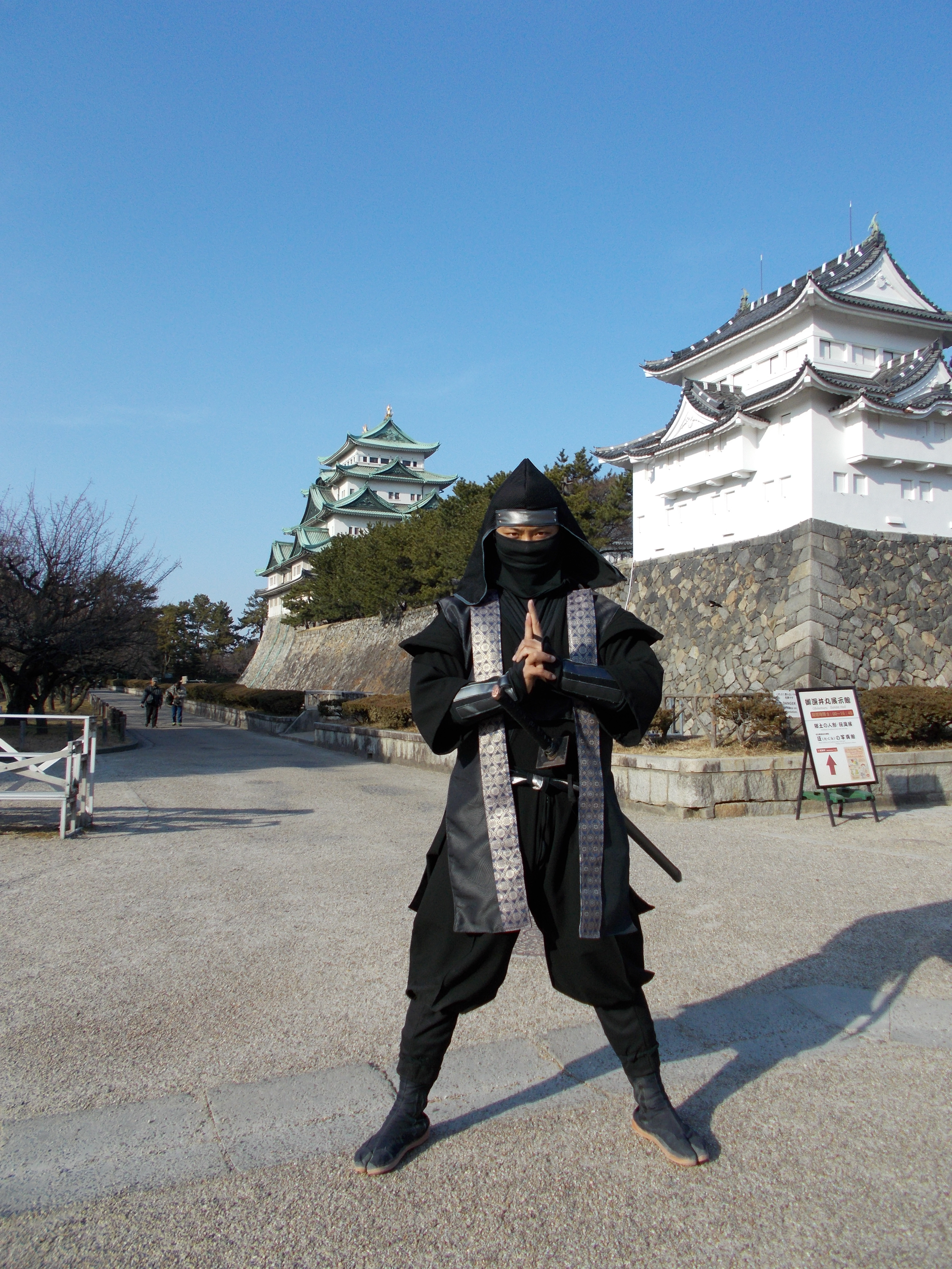 Hattori Hanzō, Hattori Hanzō and the Ninjas. Loc: Nagoya castle, Nagoya city, Aichi Prefecture, Japan. 徳川家康と服部半蔵忍者隊・服部半蔵（3代目） 撮影場所 愛知県名古屋市・名古屋城